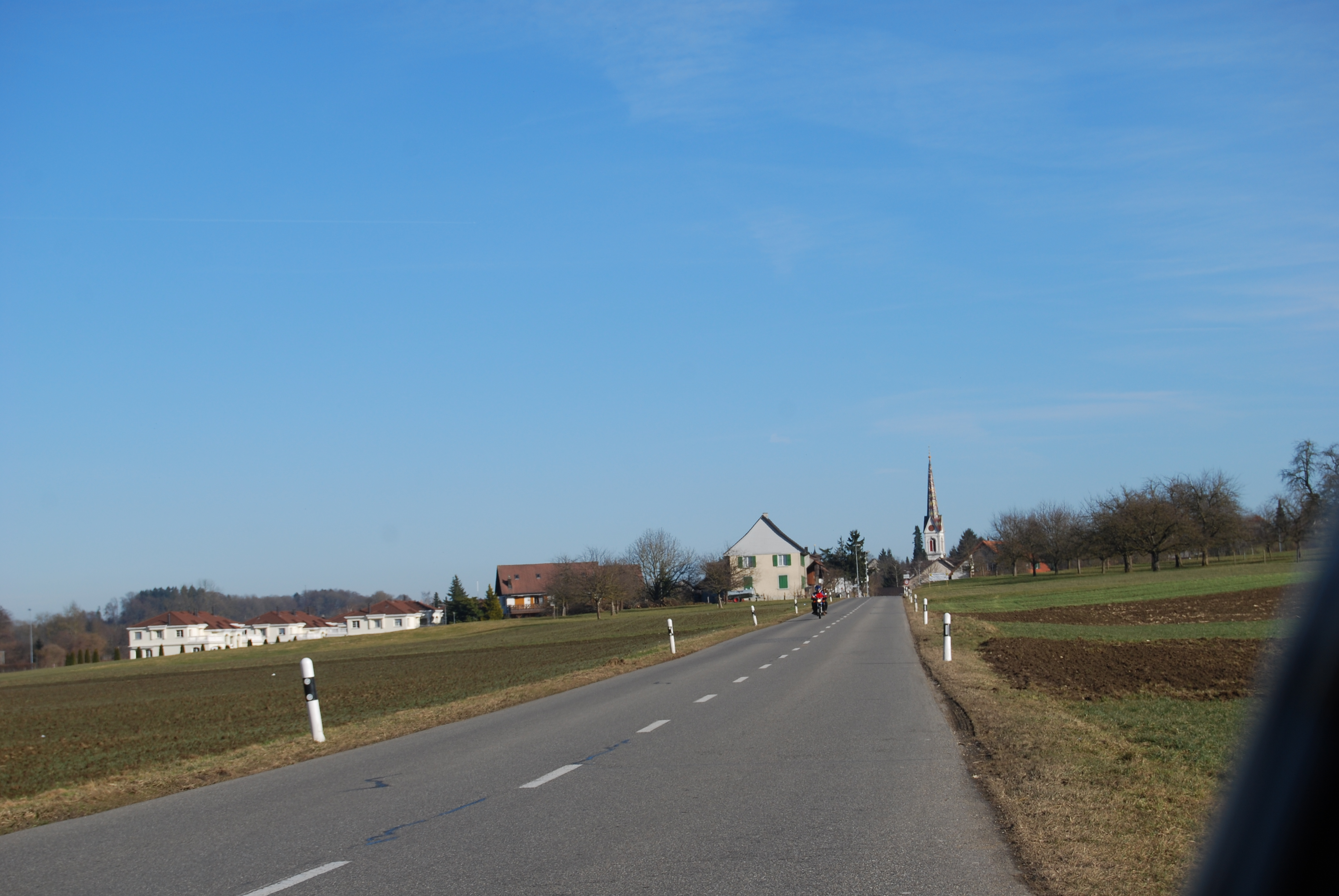 Hugelshofen, municipality of Kemmental, canton of Thurgovia, Switzerland